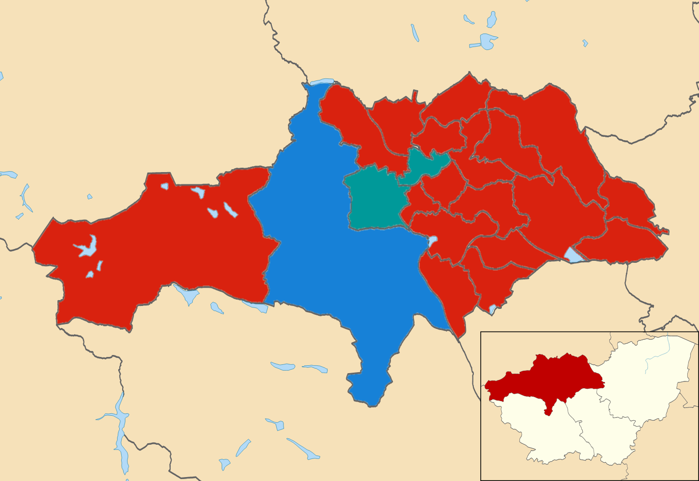 Results of the 2014 local elections in Barnsley Colours: Conservative Labour Barnsley Independent Group